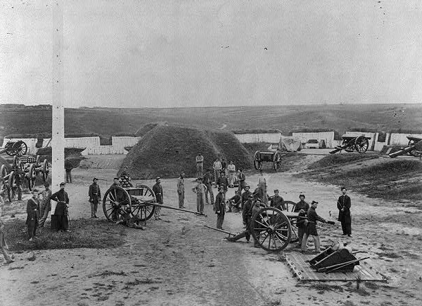 Field Artillery batteries inside one of the Wash., D.C. defenses, 1861-64.